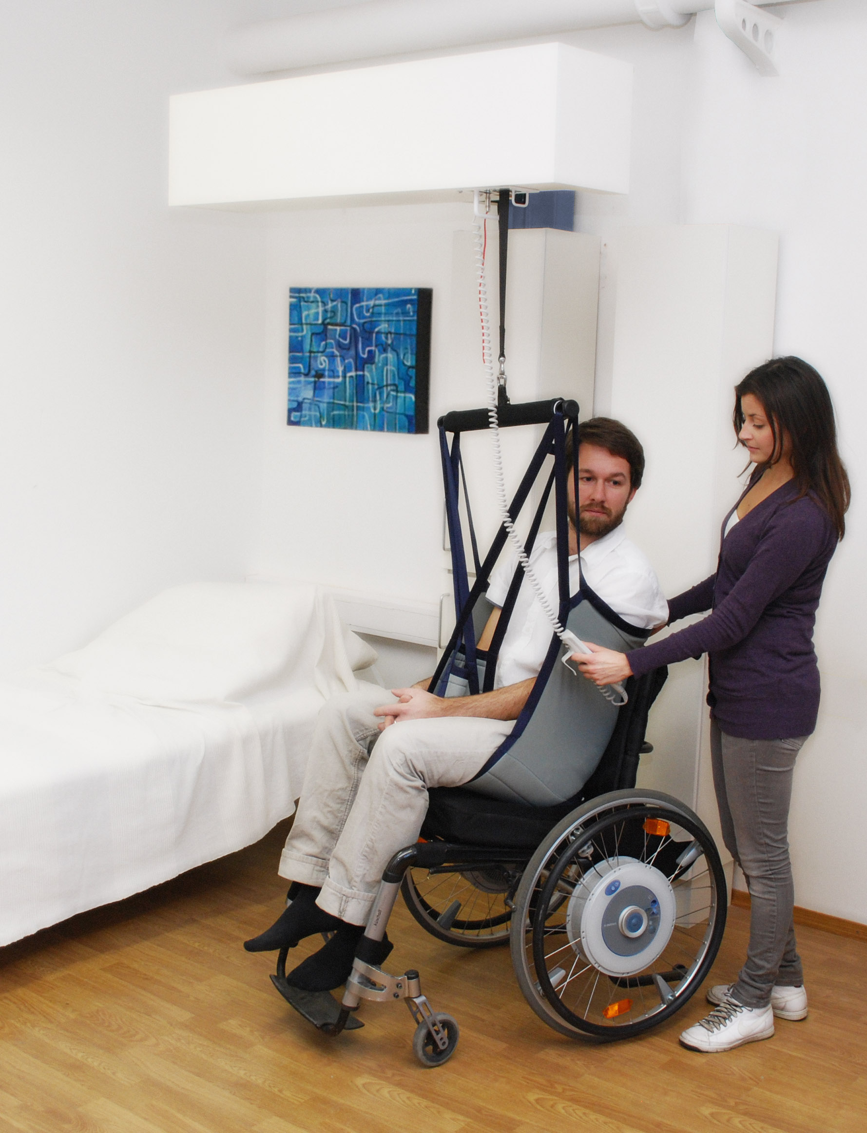 Patient lift for safe patient handling. The Integra patient lift is integrated in a bedside cabinet. Norwegian producer Integracp. Personløfter. Integraløfteren er integrert i sengekabinettet. Norsk Produsent